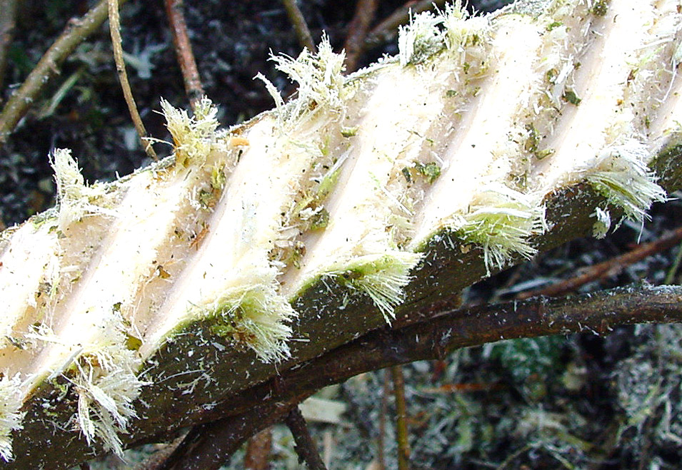 Detail : Coppice short rotation willow (clones), irrigated by water from the purification plant of Villeneuve d'Ascq (town, in northern France) for final purification of water (nitrates, phosphates). This coppice was used to produce wood chips to fuel a boiler-wood.